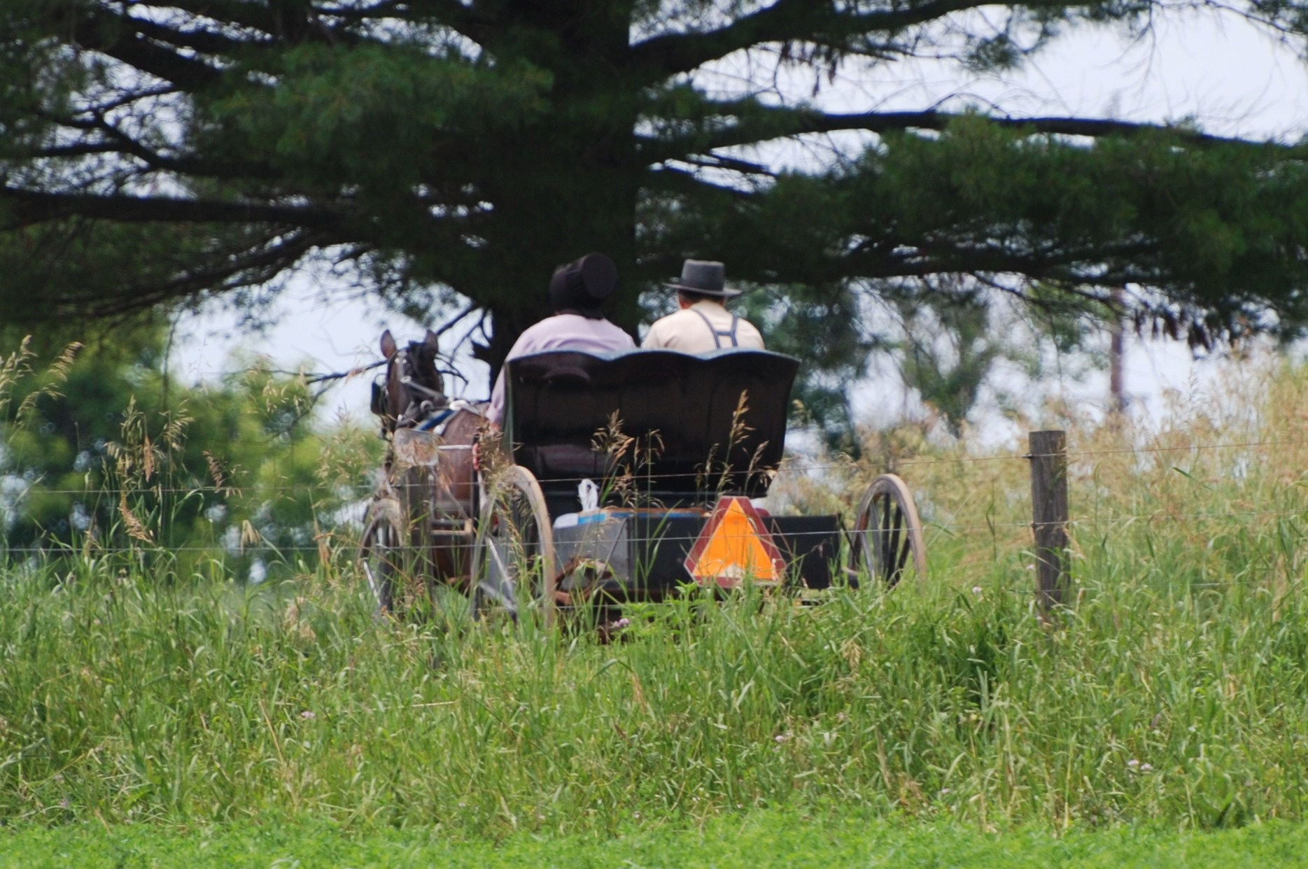 I had a charming experience yesterday! I was off in Amish country, headed for M-43/M-66 the long way around, where there is always Amish Baked goods. I was going down some of the rural roads and noticed there was a lot of horse traffic. I love to see the horses at work and was really enjoying the trip. I ended upbehind this buggy and was nervous about passing it, so, I turned in to the J&L Country store, an amish grocery. There were quite a few buggies at the store, and another motorized vehicle. There were baked goods displayed outside, and I found some cinnamon rolls and a mini-blueberry pie. I paid for them, then turned to go into the grocery. I heard talking behind me, and finally realized it was directed at me. "Don't you want your ice cream?" I must have looked very dumb. "You know, your free ice cream. And register for the drawing too, please." I had stumbled upon customer appreciation day. Wow. So of course I took my cup of Mooville Ice Cream, with homemade caramel topping (I could have waited for the chocolate which was coming but I like caramel better anyway). I didn't want to eat it in the car, so I sat down at a picnic table. There I was, in my almost sleeveless red top, with the Amish. Culture shock for me. They didn't seem very bothered.